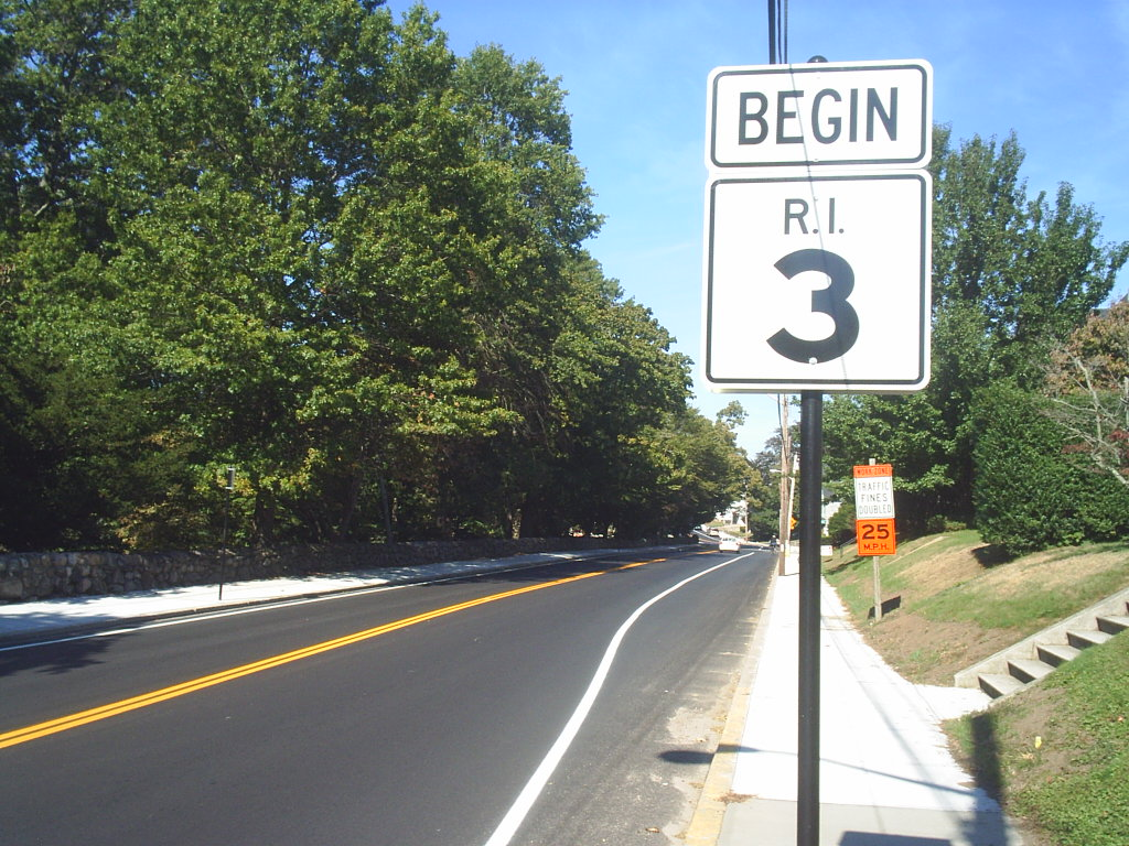 Beginning sign for Rhode Island Route 3.